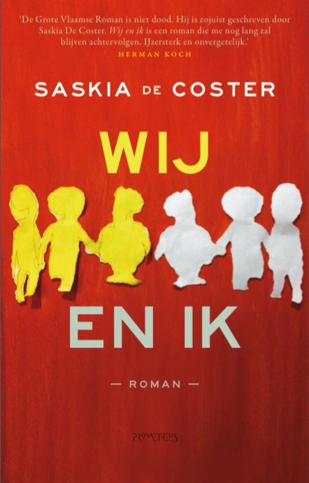 Cover of the latest novel Wij en ik by Saskia de Coster